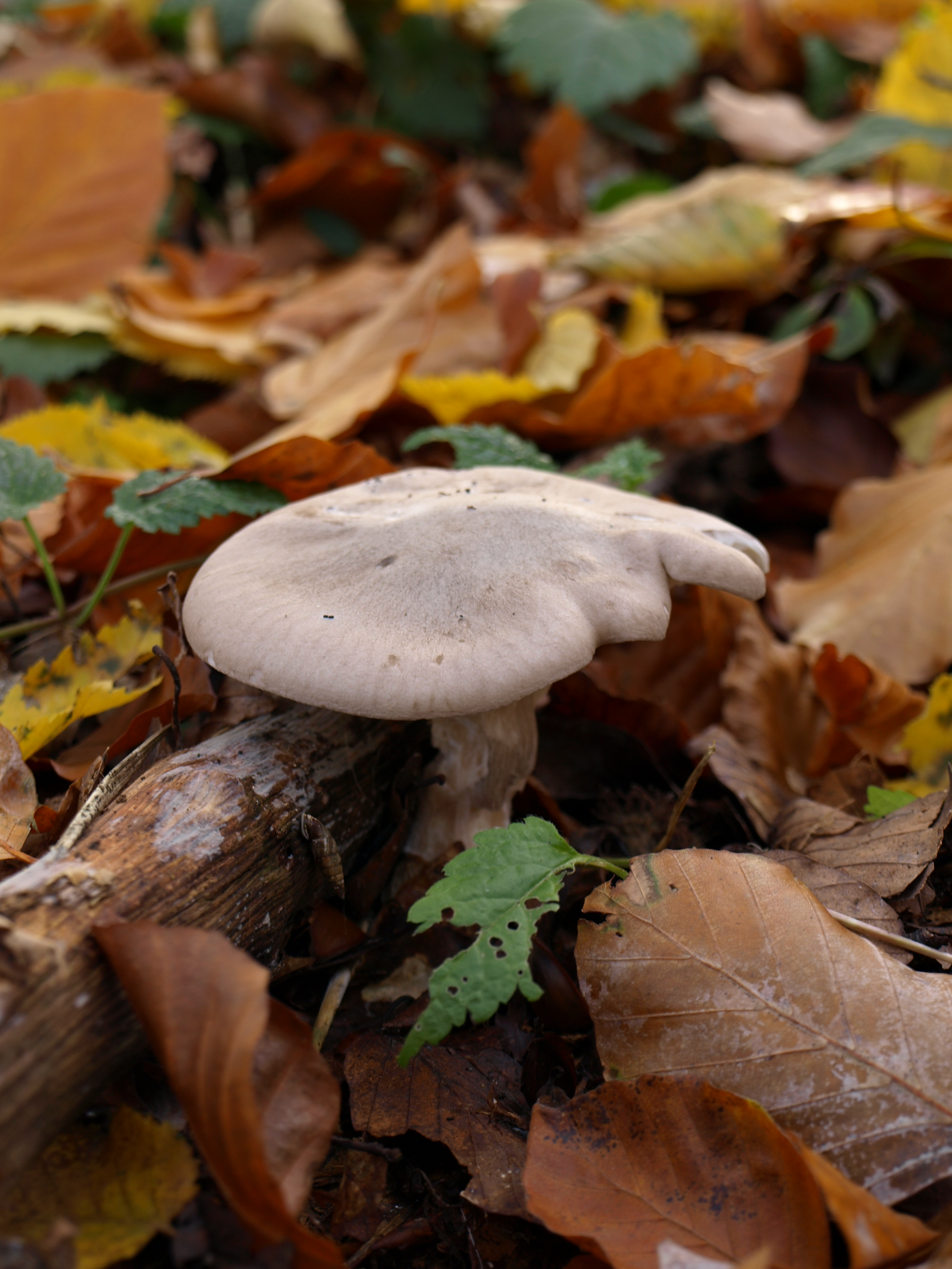 National nature reserve Ve Studeném in Benešov District, Czech Republic